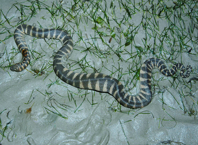 Acrochordus granulatus, a marine file snake, Singapore. For a high res version of this photo, please review the details on about using my photos. When making the request, please include this reference: 030616cjd0076 renamed and watermark removed.